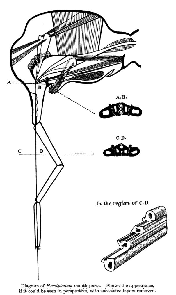 Mouth parts of a bug, Hemiptera